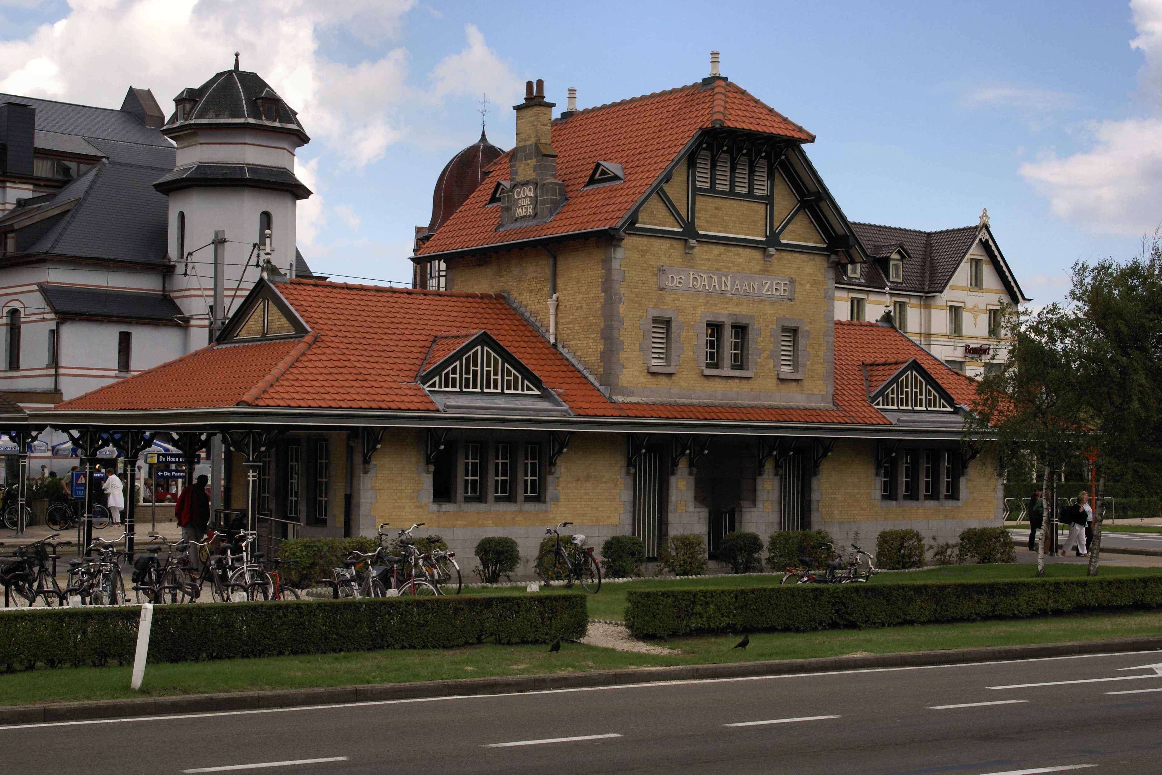 Tram station - De Haan, Belgium